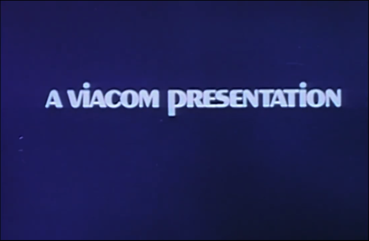 The original logo of Viacom, also known as the "Pinball Logo." Used from 1972 through 1976.